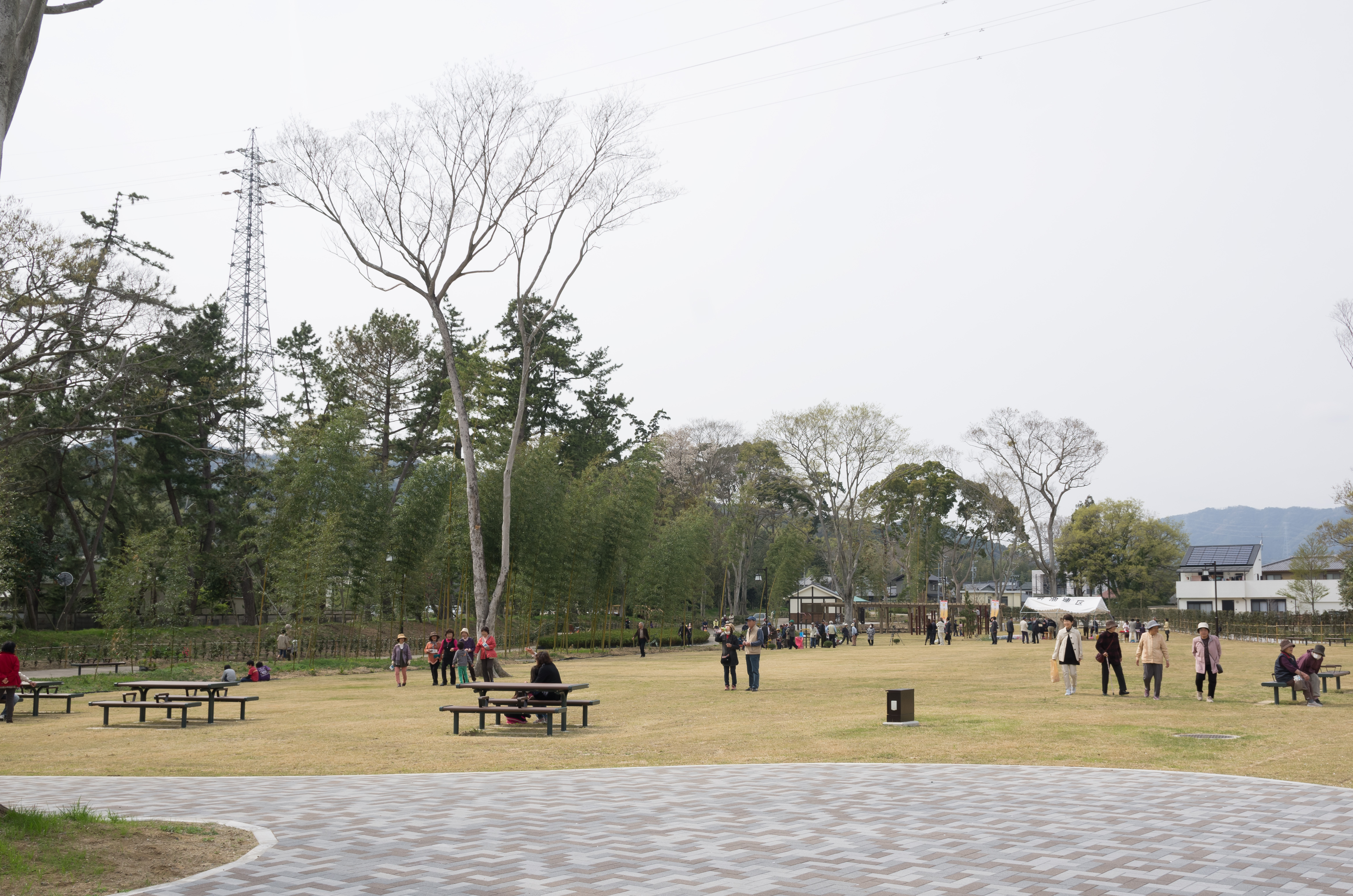 Goyu Matsunamiki Park in Toyokawa, Aichi, Japan